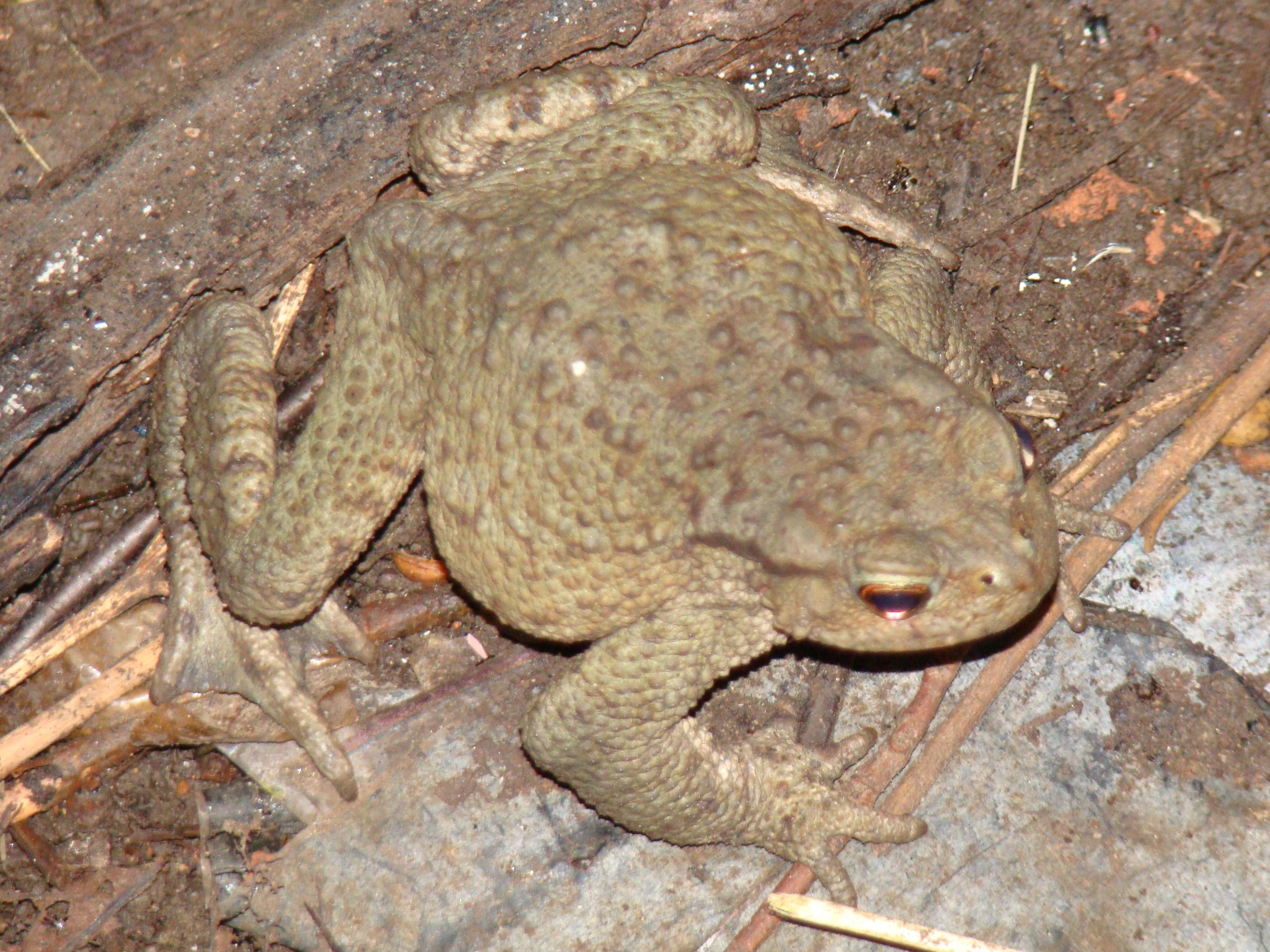 Caucasian Toad (Bufo verrucosissimus). Russia, Krasnodar kray, Ust'-Labinsk.